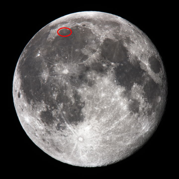 The Location of Sinus Iridum, One of the Lunar Geographical Features.